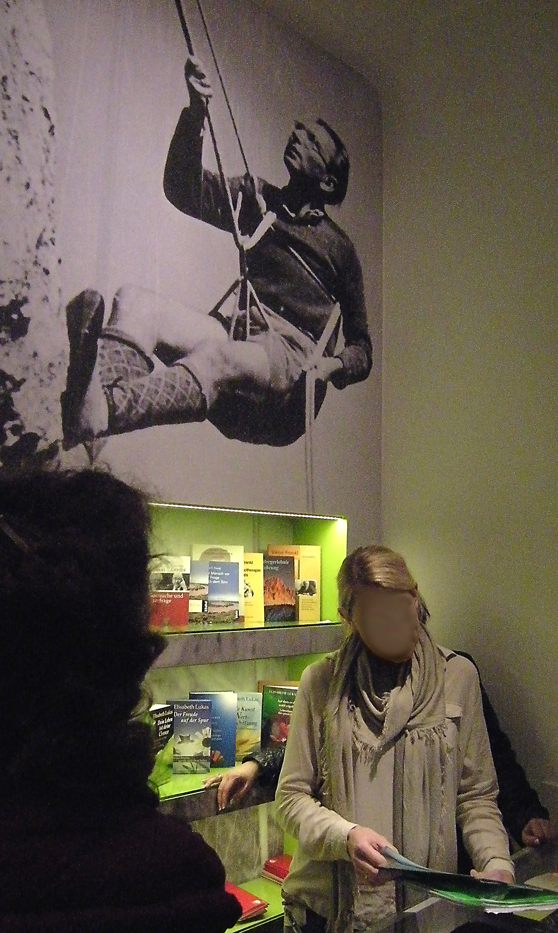 Viktor Frankl Museum.